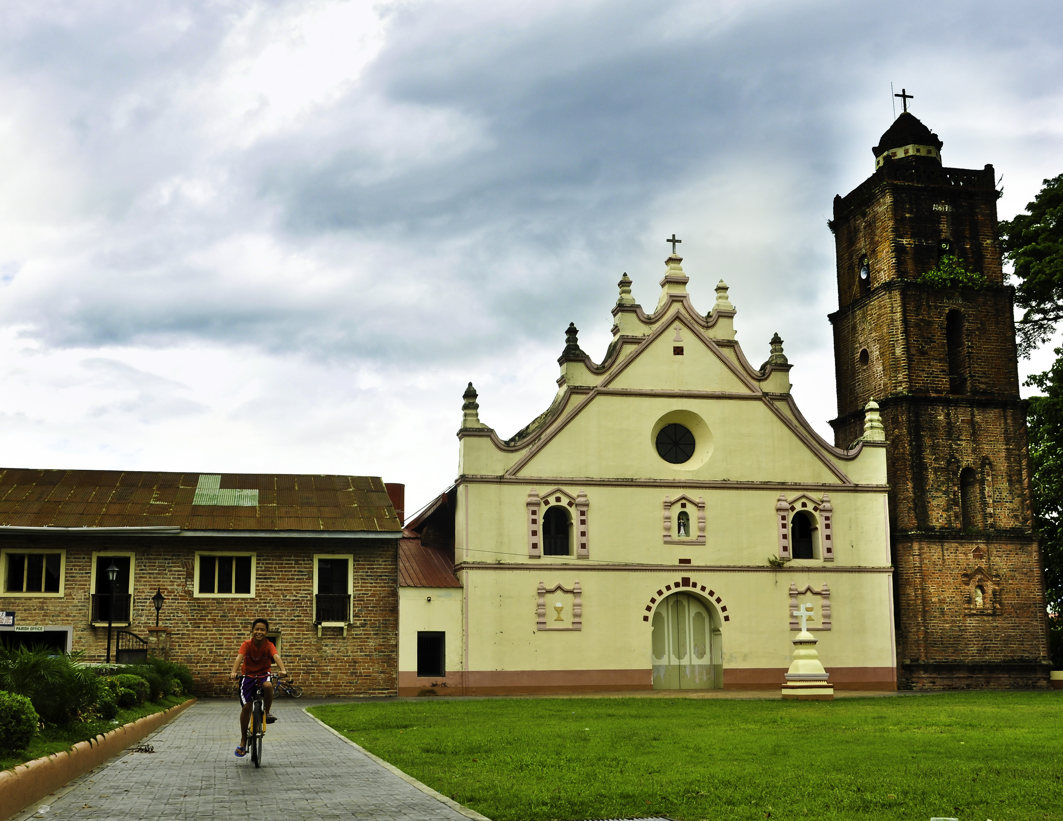 Dupax del Sur Church , aslo known as San Vicente Ferrer Parish Church is located in Dupax del Sur, Nueva Vizcaya.It iwas built in the 18th century under the Dominicans